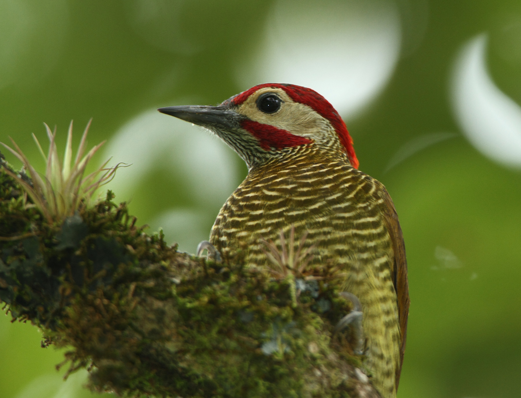 Golden-olive woodpecker (Colaptes rubiginosus), CATIE, Turrialba, Costa Rica